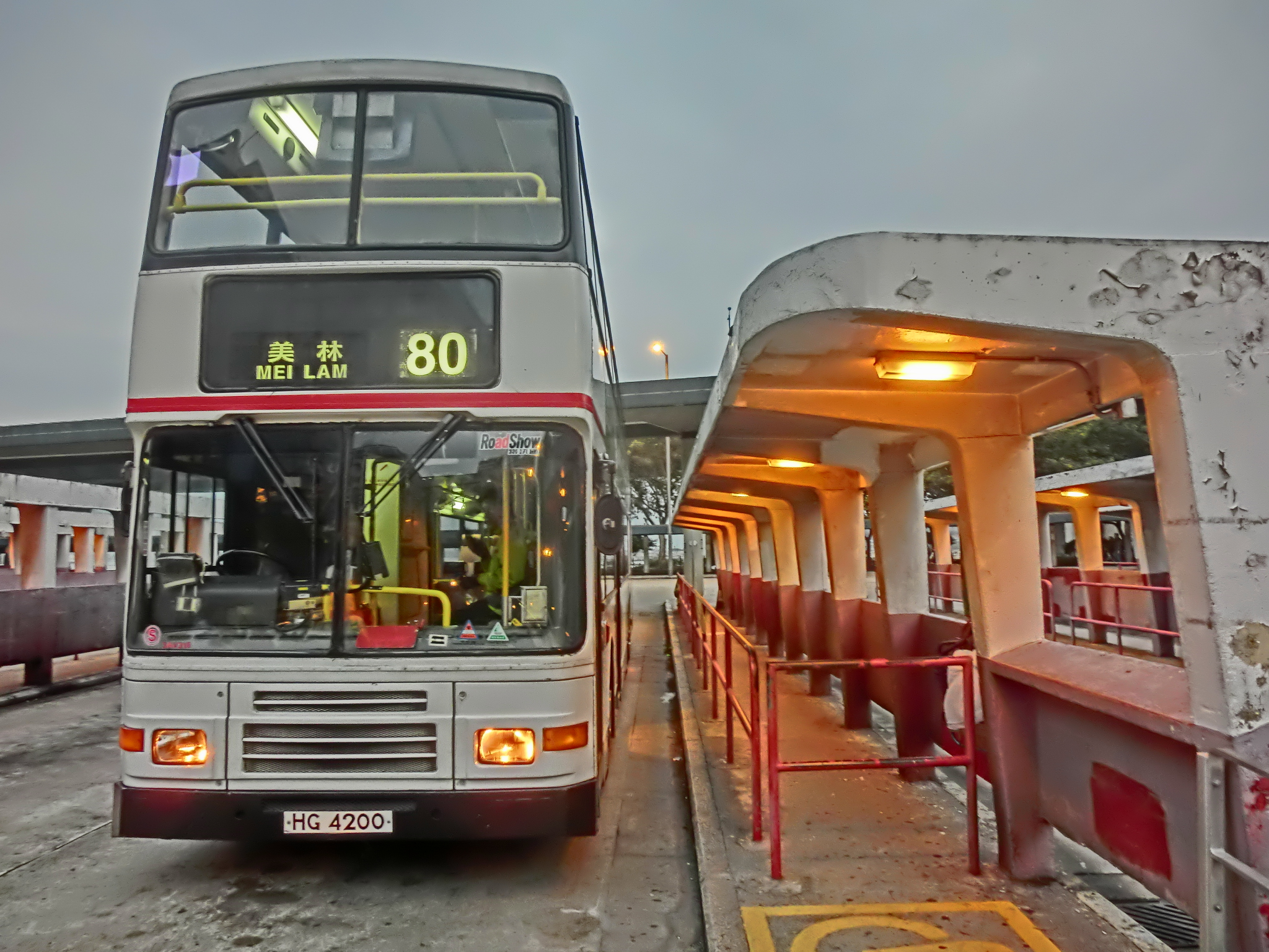 Kwun Tong Ferry Bus Terminus, Wai Yip Street, Hong Kong